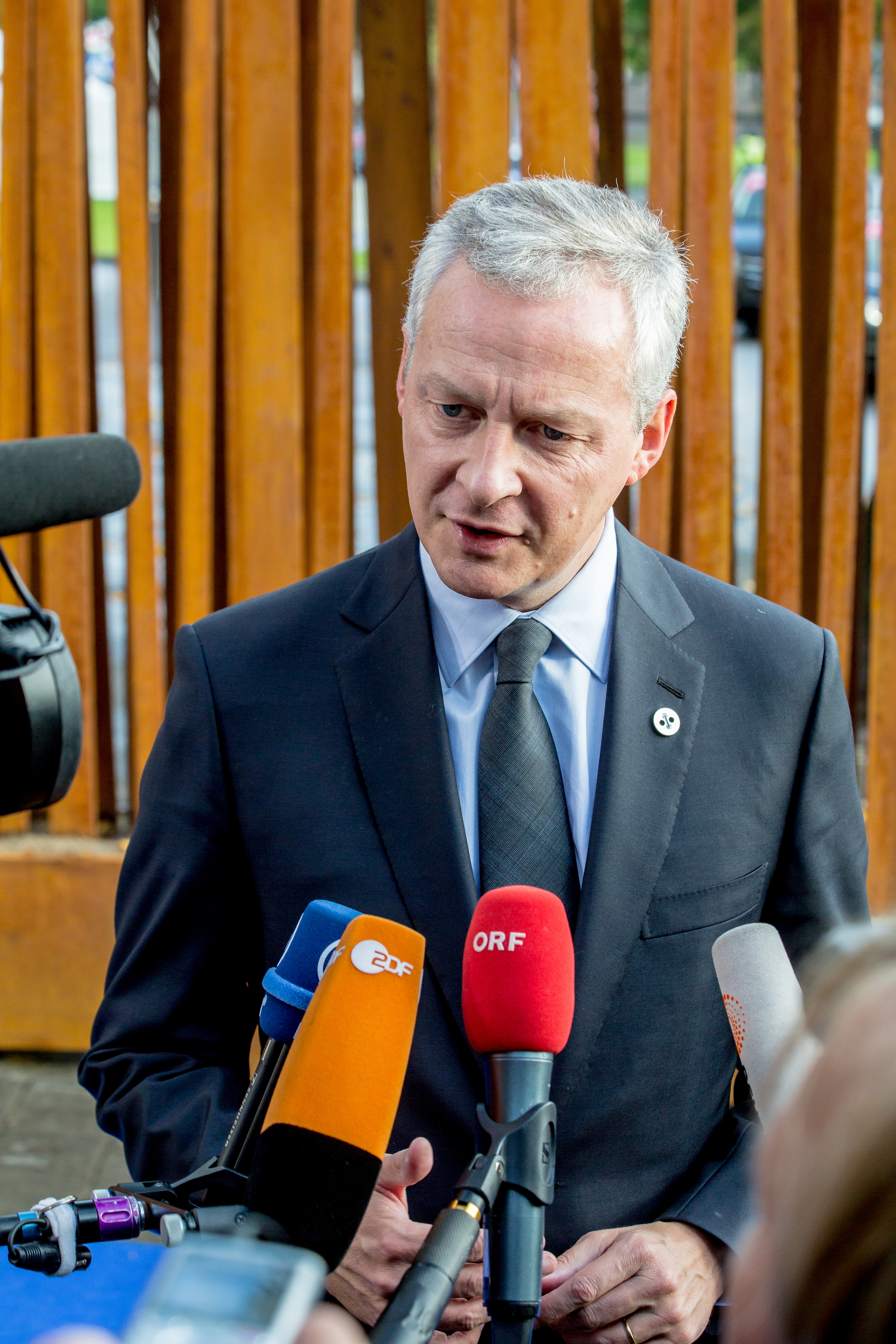 Bruno Le Maire, Minister, Ministry of Economy and Finance, France Photo: Aron Urb (EU2017EE)